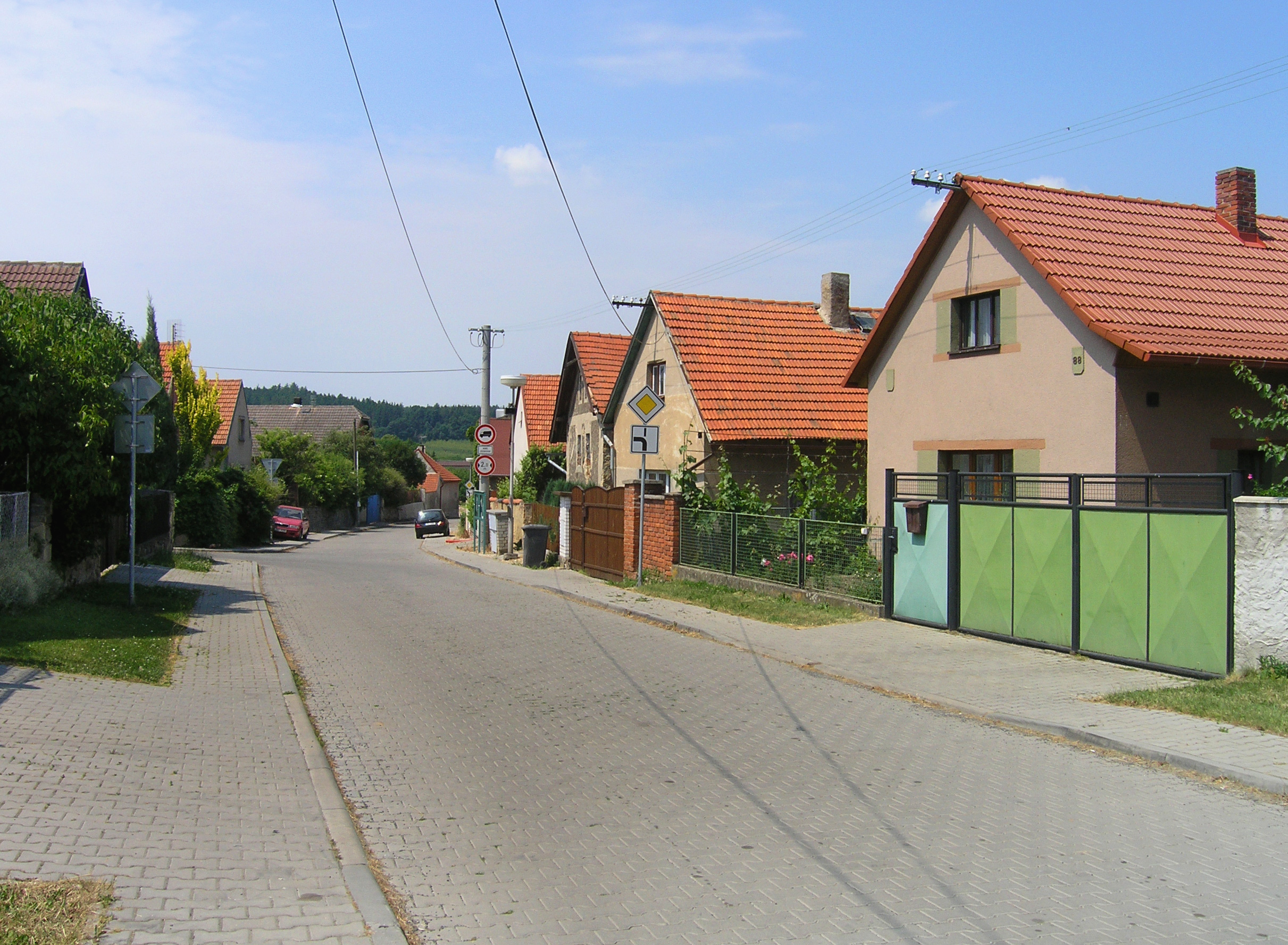 Middle part of Ždánice, Czech Republic